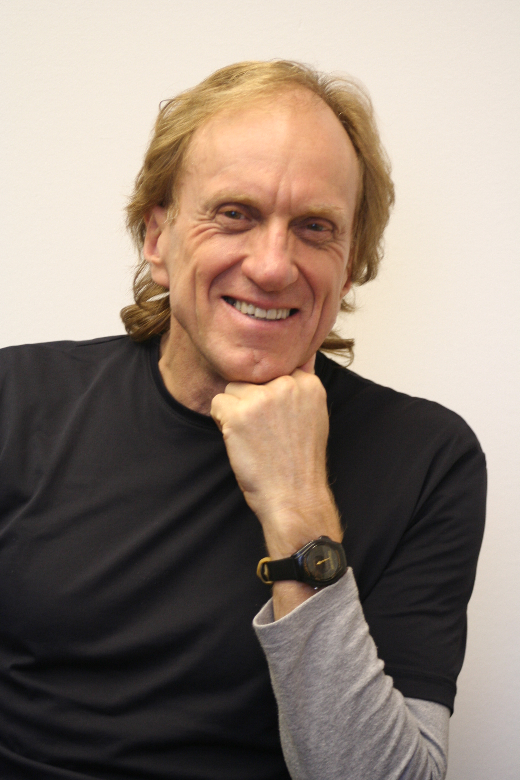 photo of Michael White (psychotherapist)